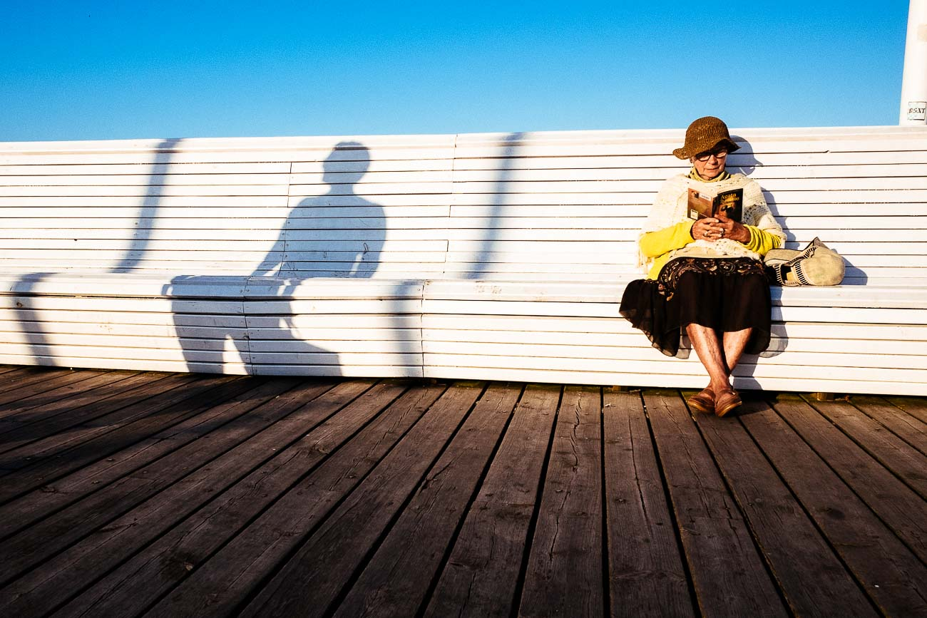 The Reader shot by Berlin based street photographer Martin U Waltz in Sopot, Poland in 2016. Images was commended in the 2017 Sony World Photography Awards (open competition, category street photography ). It is the cover image of the German street photography book "Streetfotografie - Made in Germany" published by Rheinwerk Verlag 2018.